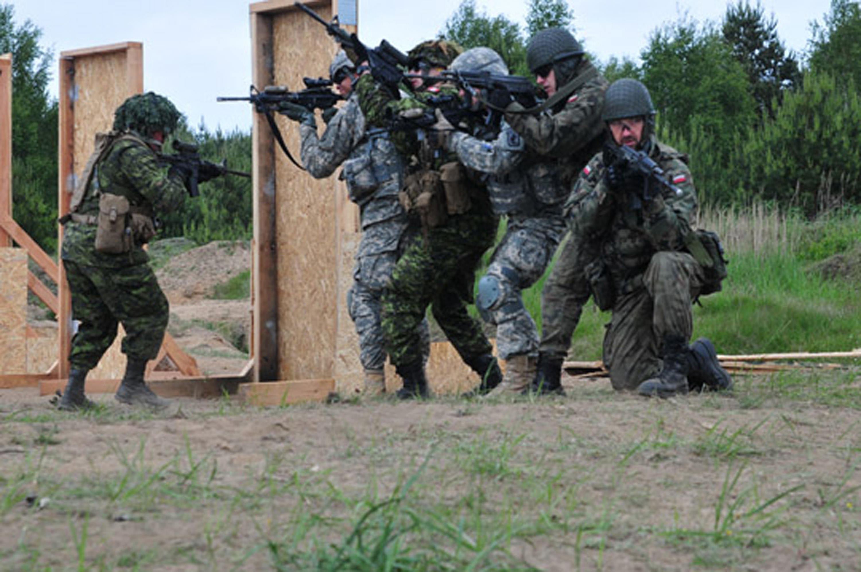 Paratroopers from the U.S. Army’s 173rd Airborne Brigade, Princess Patricia’s Canadian Light Infantry, and Poland’s 6th Airborne Brigade prepare to assault through a barrier during breaching training May 29, 2014, at a military training area near Drawsko-Pomorskie, Poland. The 173rd Airborne Brigade has approximately 600 paratroopers in Estonia, Latvia, Lithuania and Poland training with NATO allies to demonstrate U.S. commitment to NATO allies and sustain interoperability. (U.S. Army photo by Sgt. Brian Godette, 382nd Public Affairs Detachment)